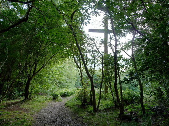 Memorial cross in Allerford Plantation, near Selworthy, Somerset